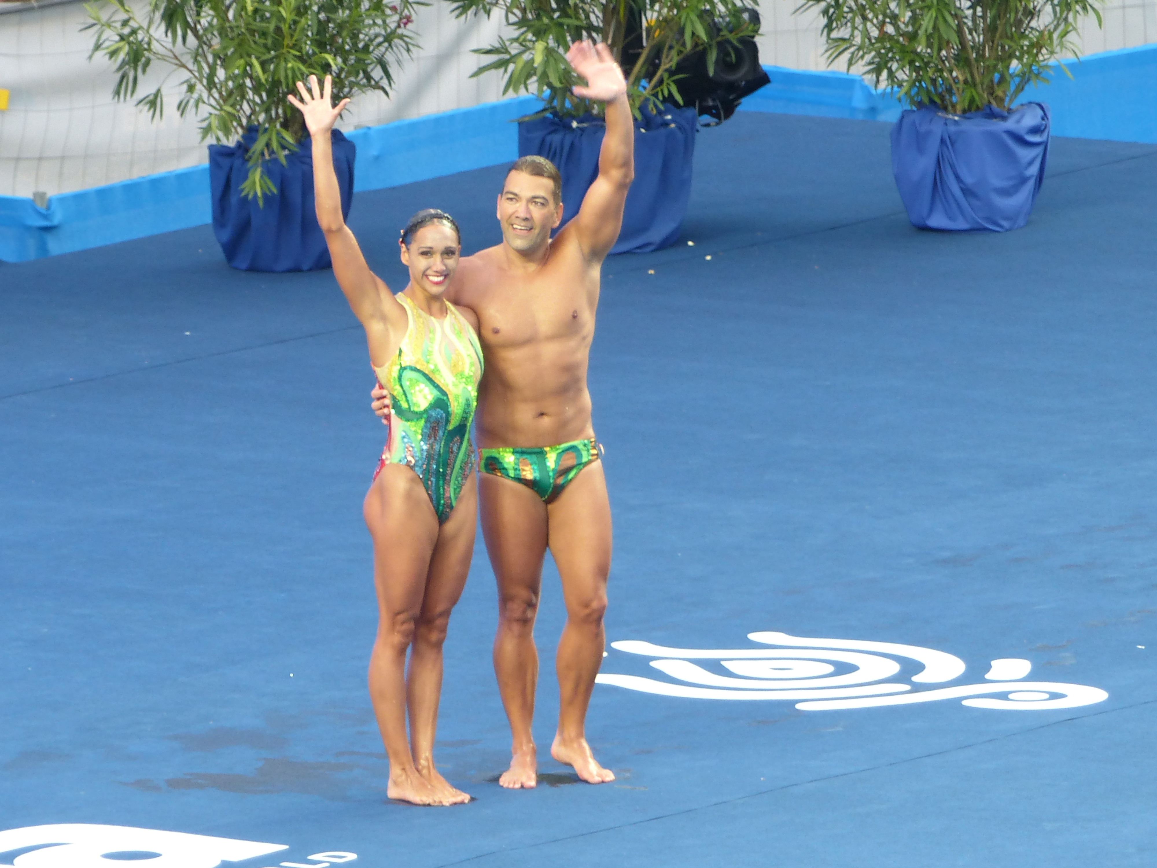 Mixed duet free final. 17th FINA World Championships Budapest / Budapest 2017 FINA Vizes Világbajnokság. Taken on Saturday, the 22nd of July, 2017. Városliget (City Park), Budapest, Hungary, Central Europe.